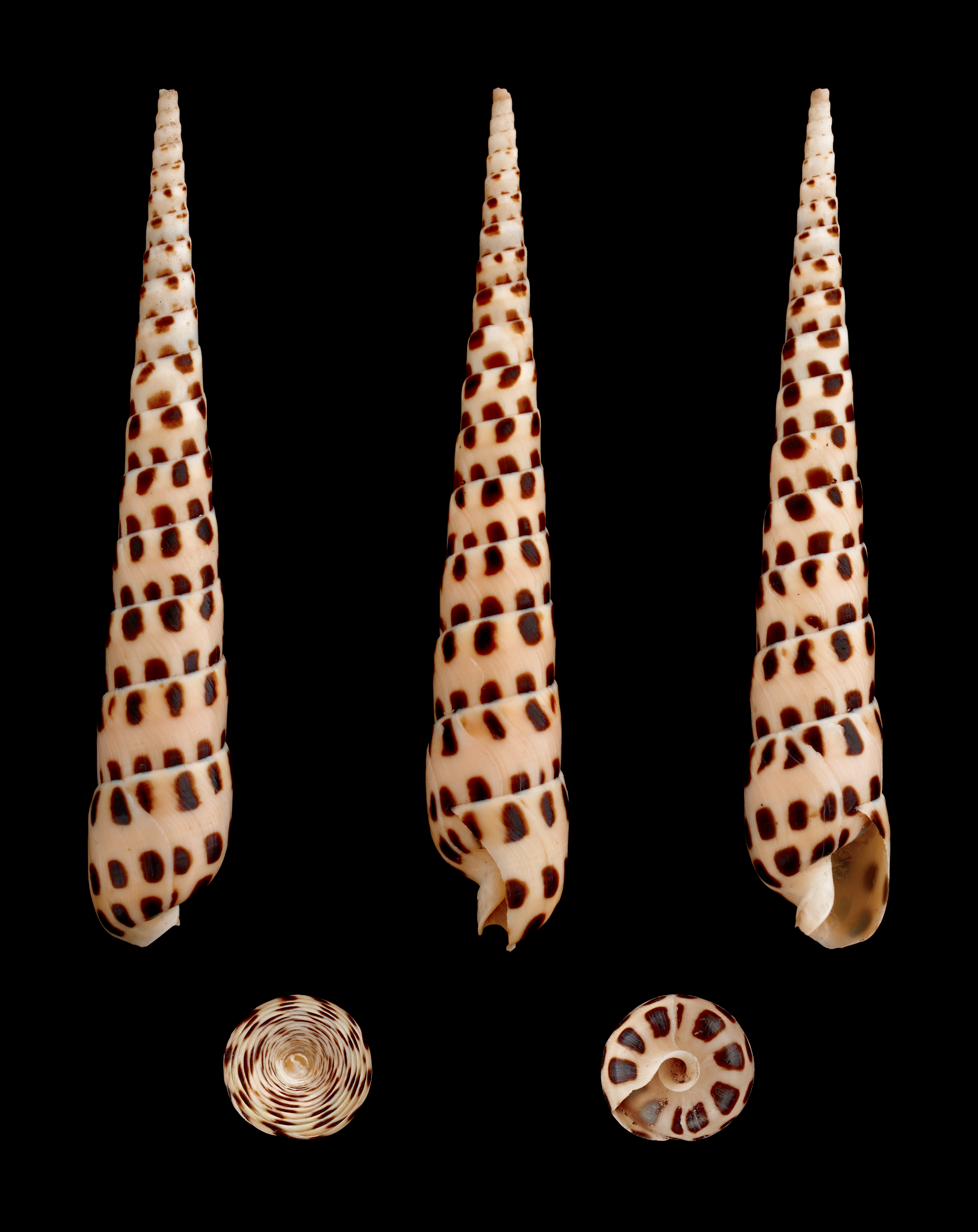 Chocolate Spotted Auger, Length 13.0 cm; Originating from Mactan Island, Philippines; Shell of own collection, therefore not geocoded. Dorsal, lateral (right side), ventral, back, and front view.